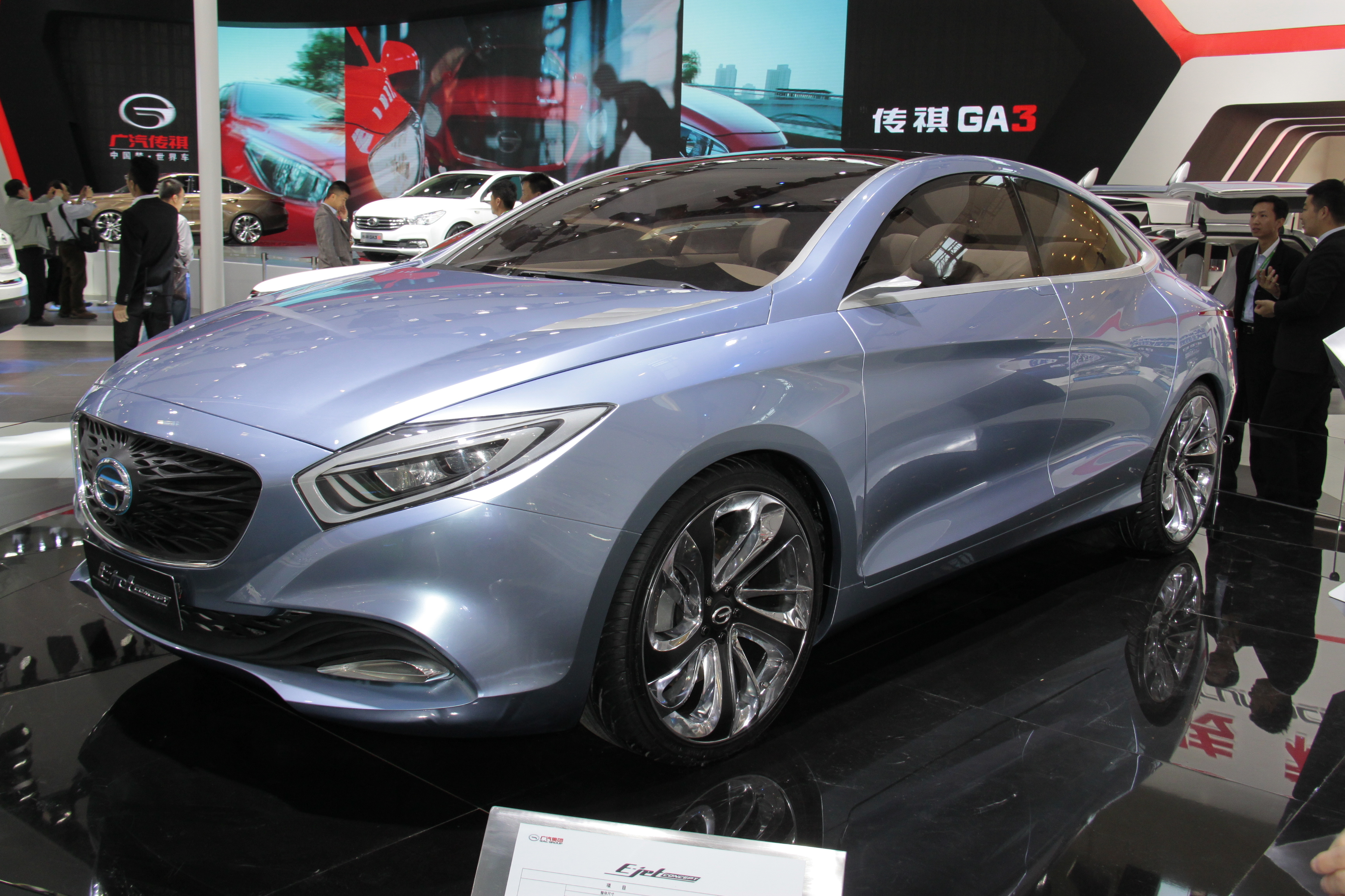 GAC Trumpchi E-Jet at Auto China 2014 (Beijing)